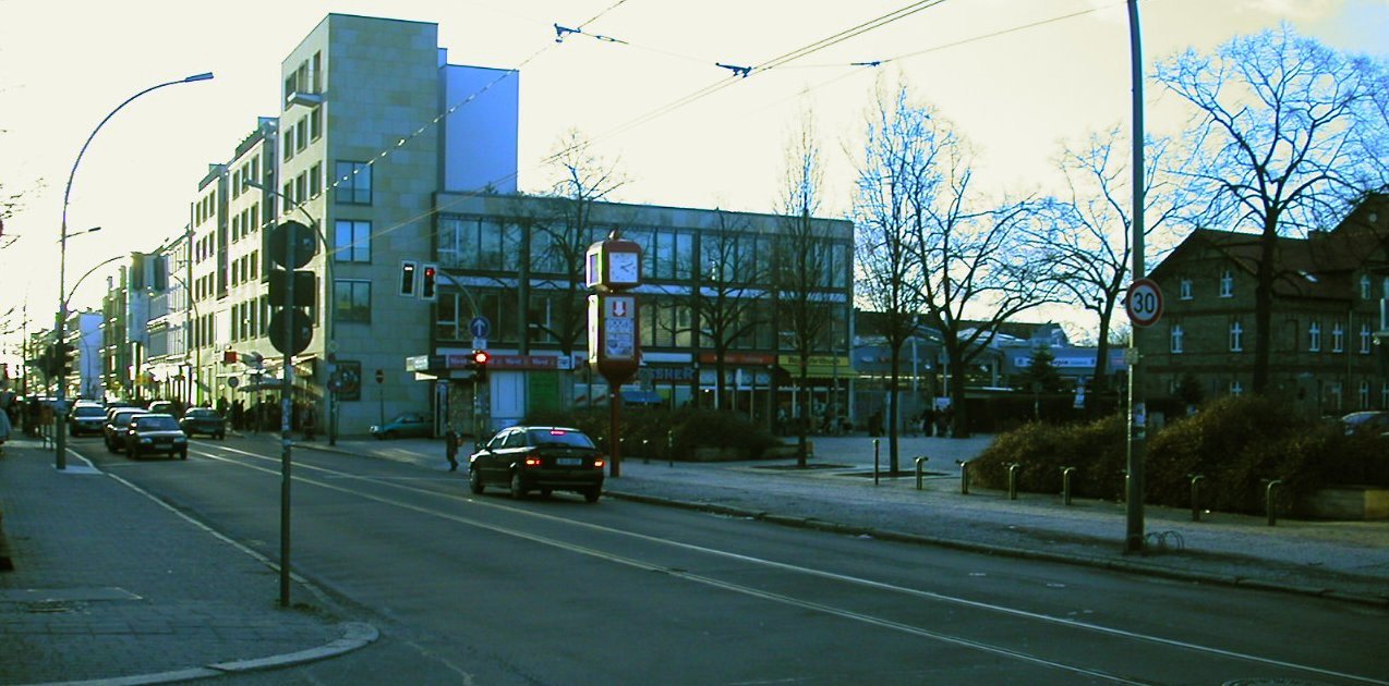 Marketplace of Adlershof, Berlin, Germany